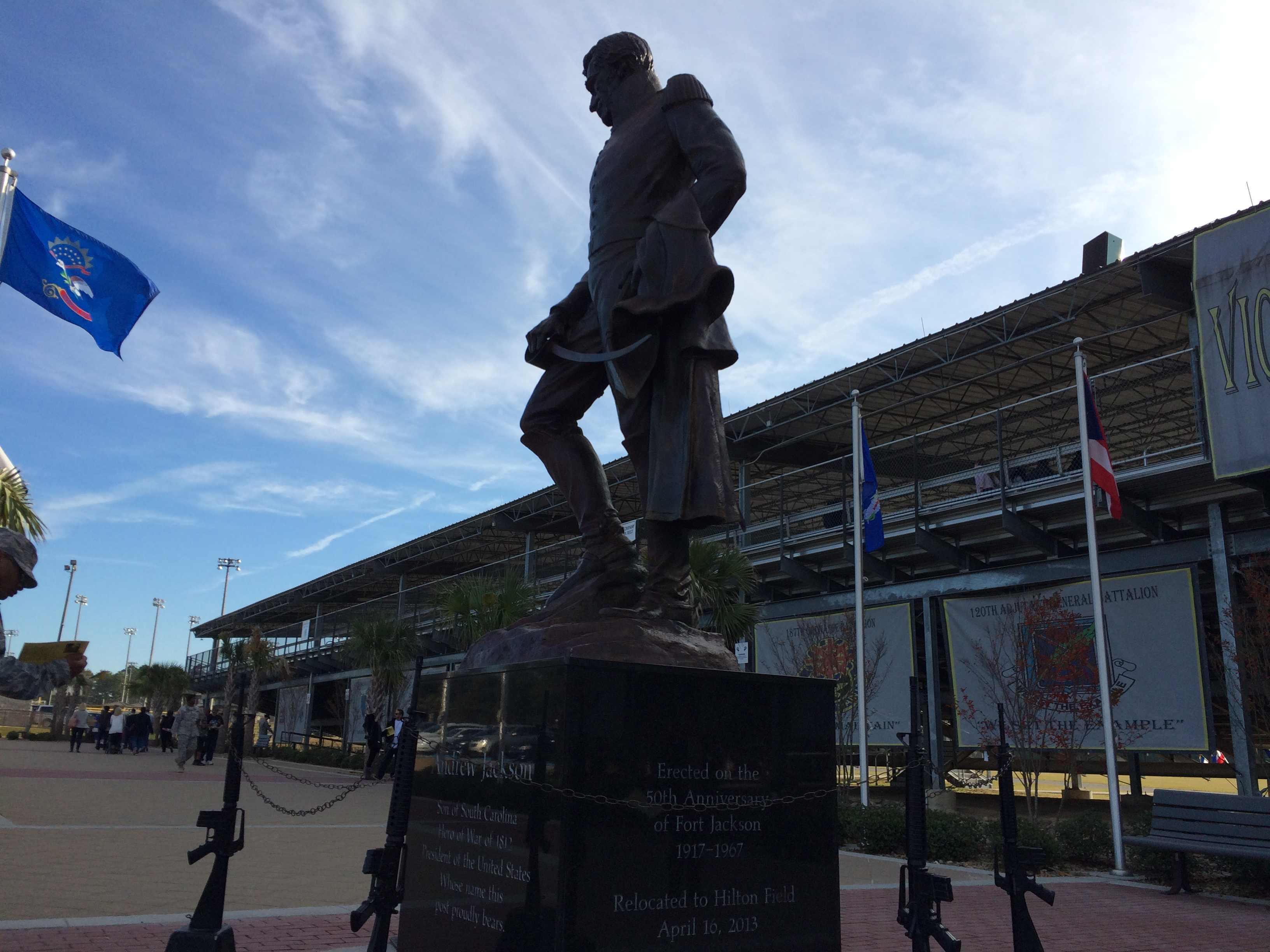 Andrew Jackson Statue Hilton Field